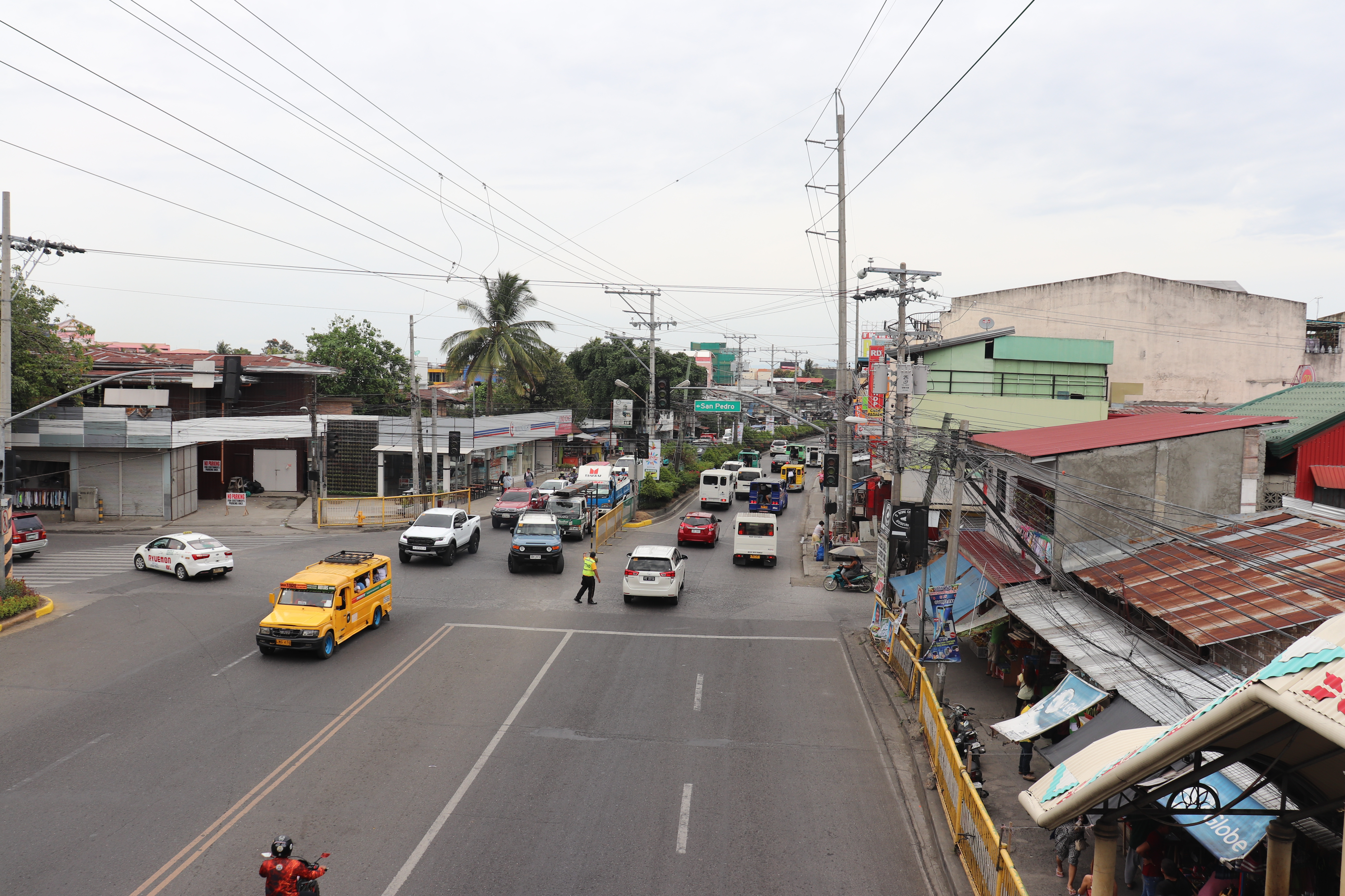 Intersection of Quezon Boulevard and San Pedro Street in Davao City, Philippines. Taken from an overpass.